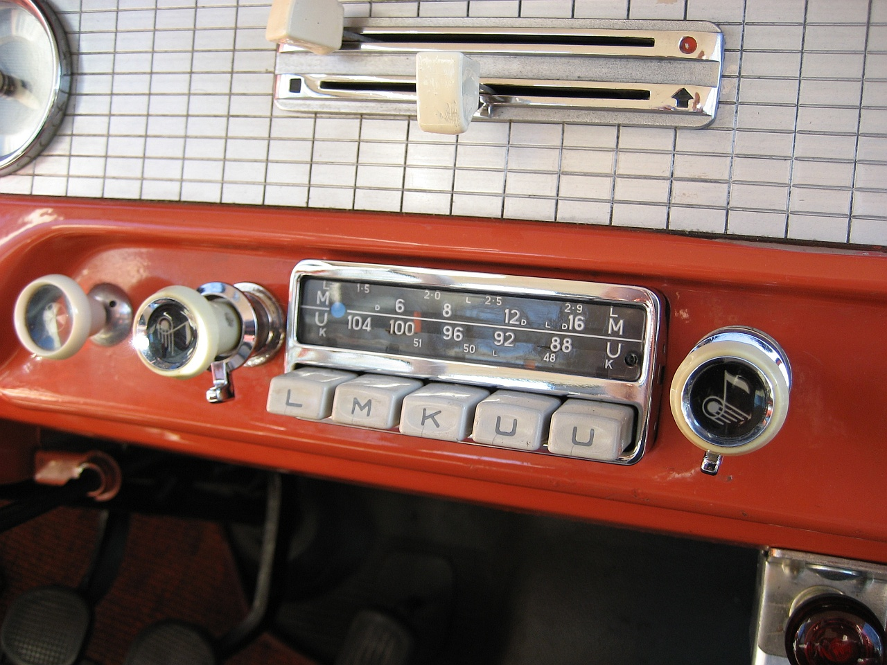 FORD Taunus 17M P2(TL) deLuxe Two door 1958 Radio receiver BLAUPUNKT Köln. The Köln badge (as well as Hamburg, Bremen etc.) was used by Blaupunkt from 1955 into the 21st century. Before 1958 all Kölns used tubes, in 1958-1959 Blaupunkt made a hybrid tube+transistor Köln, and then switched to all-transistor designs in mid-1960s. This is, quite likely, the Köln TR de Luxe hybrid that consisted of two modules - an all-tube head unit, and a separate three-transistor power amp box claiming 4W power output.